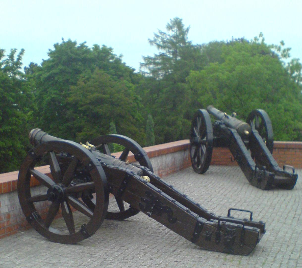 Culverin from Jasna Góra Monastery.